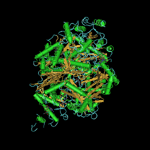 Human Hmg-Coa Reductase] With Compactin (Also Known As Mevastatin).